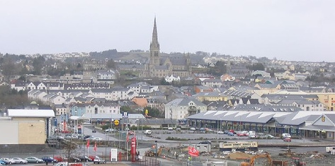 Letterkenny Town View